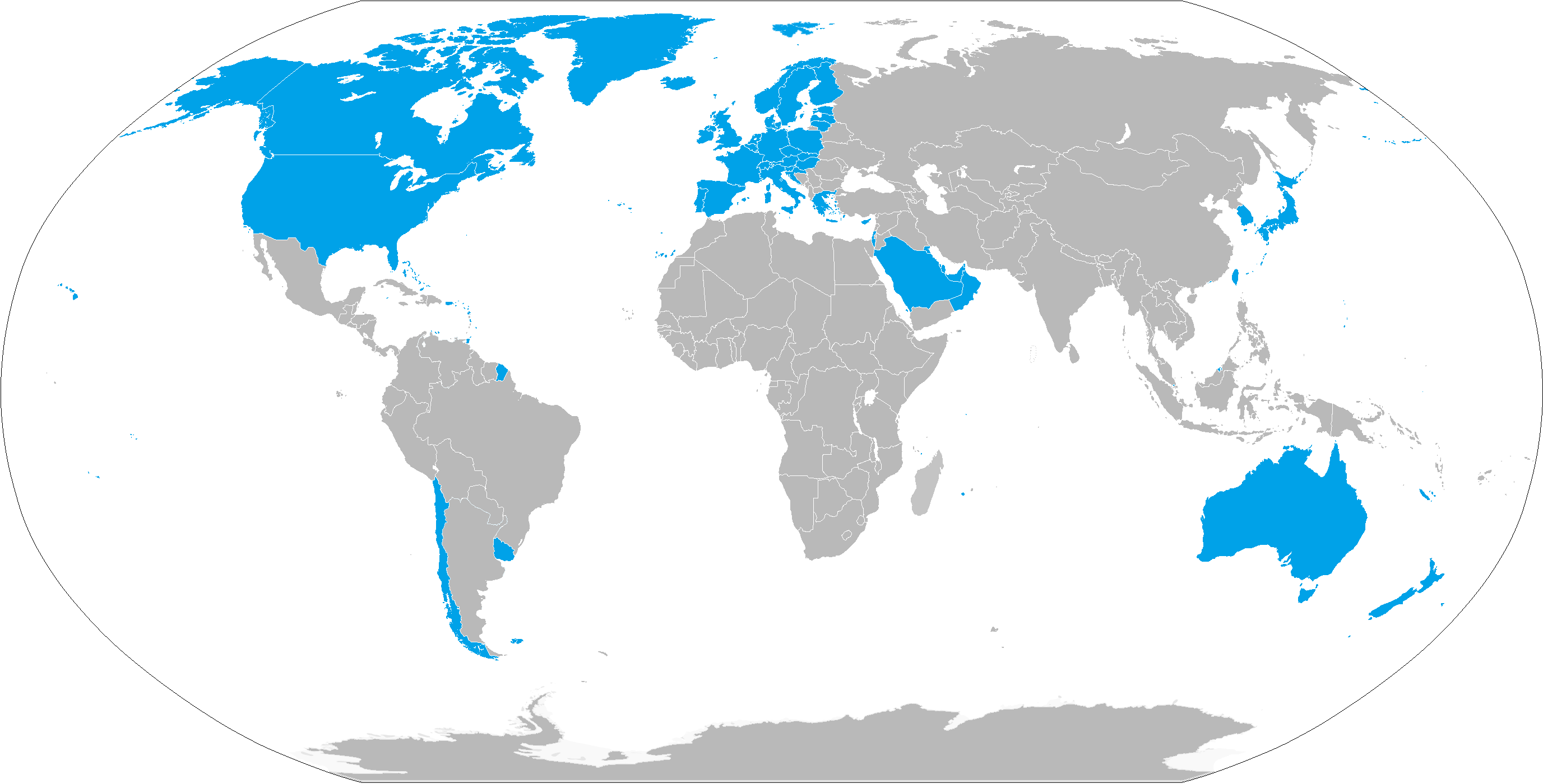 High_income_country_economies_by_world_bank in 2015 using blank map and wikipedia en article